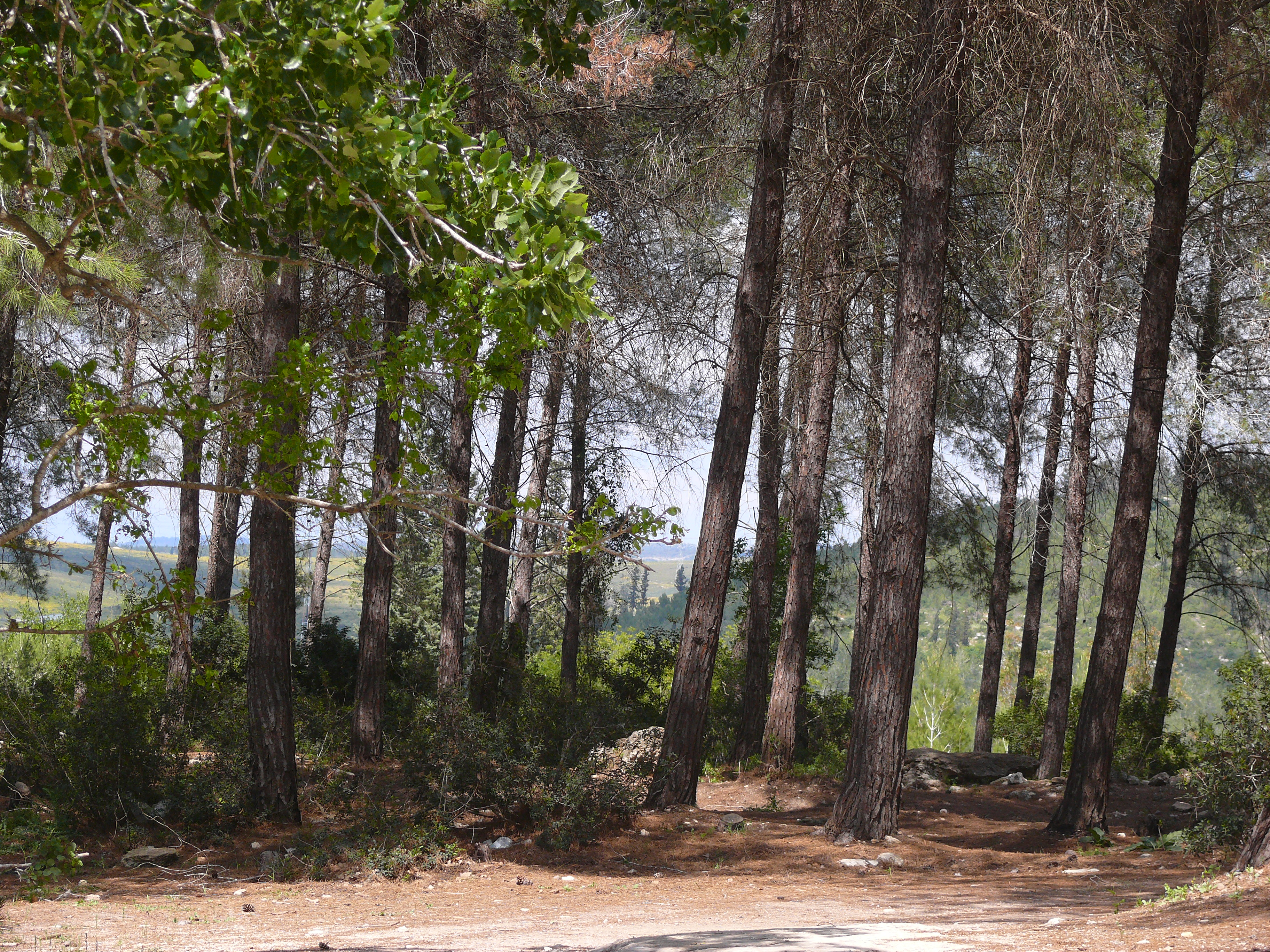 Mount Chorshan reserve, Israel